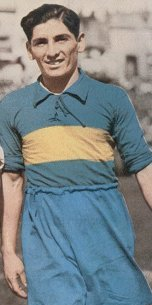 Delfin Benitez Caceres Paraguayan striker of 1930s and 1940s